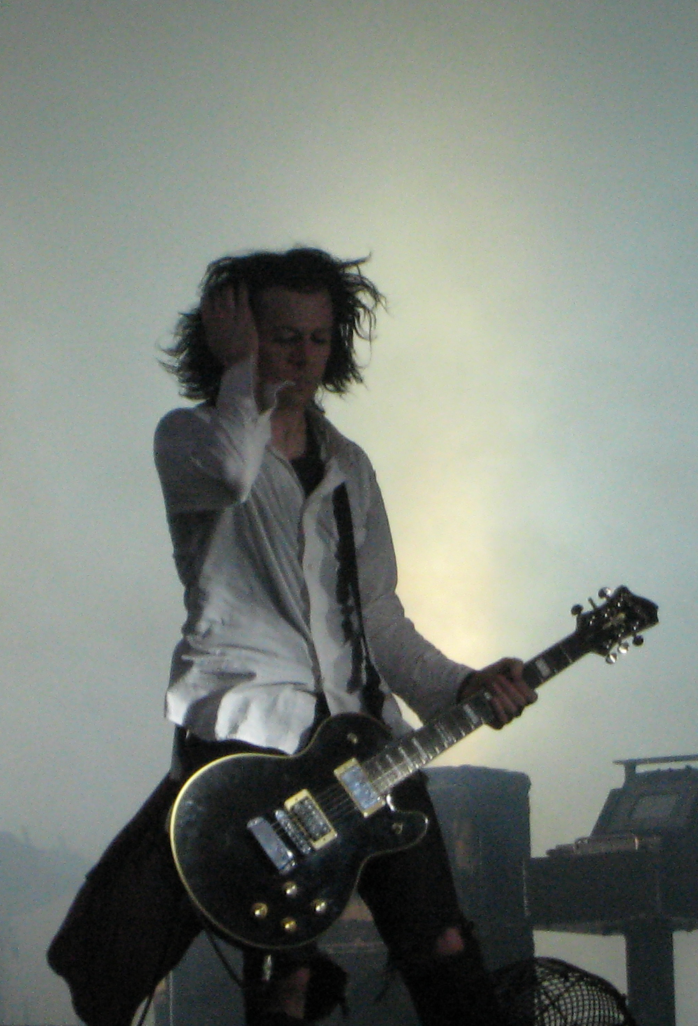 Aaron North, photo taken at Nine Inch Nails gig, Meadowbank Stadium, Edinburgh (21st August 2007).